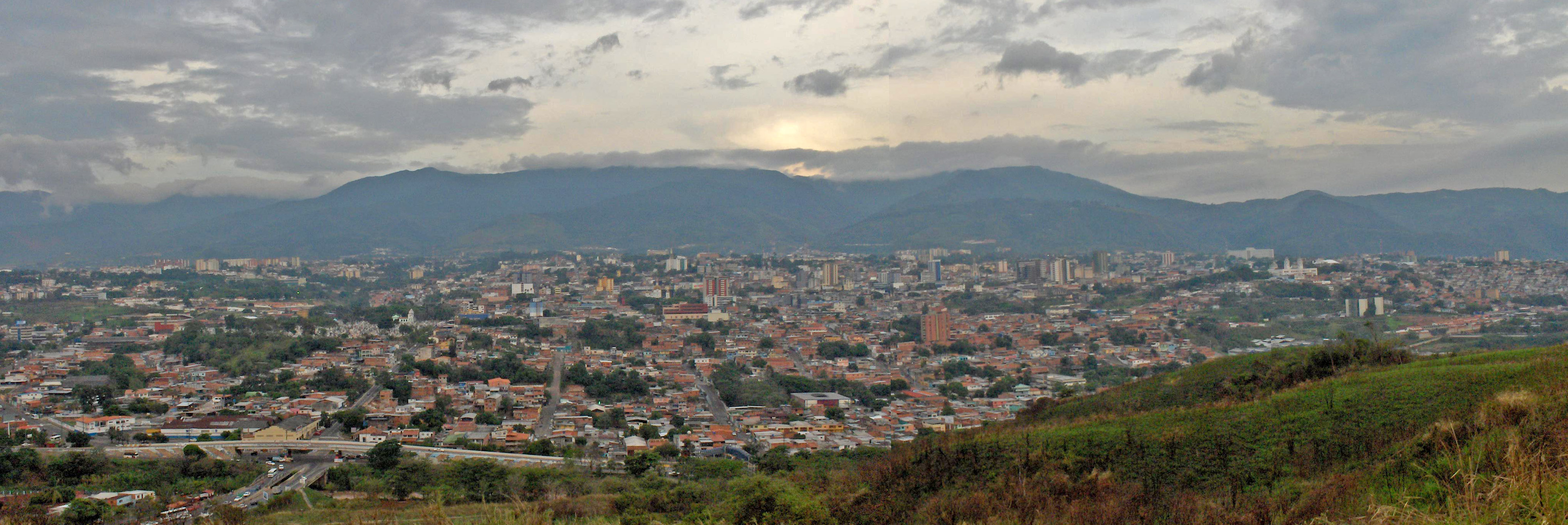 View of San Cristobal (Tachira state, Venezuela) from the road to El Mirador.